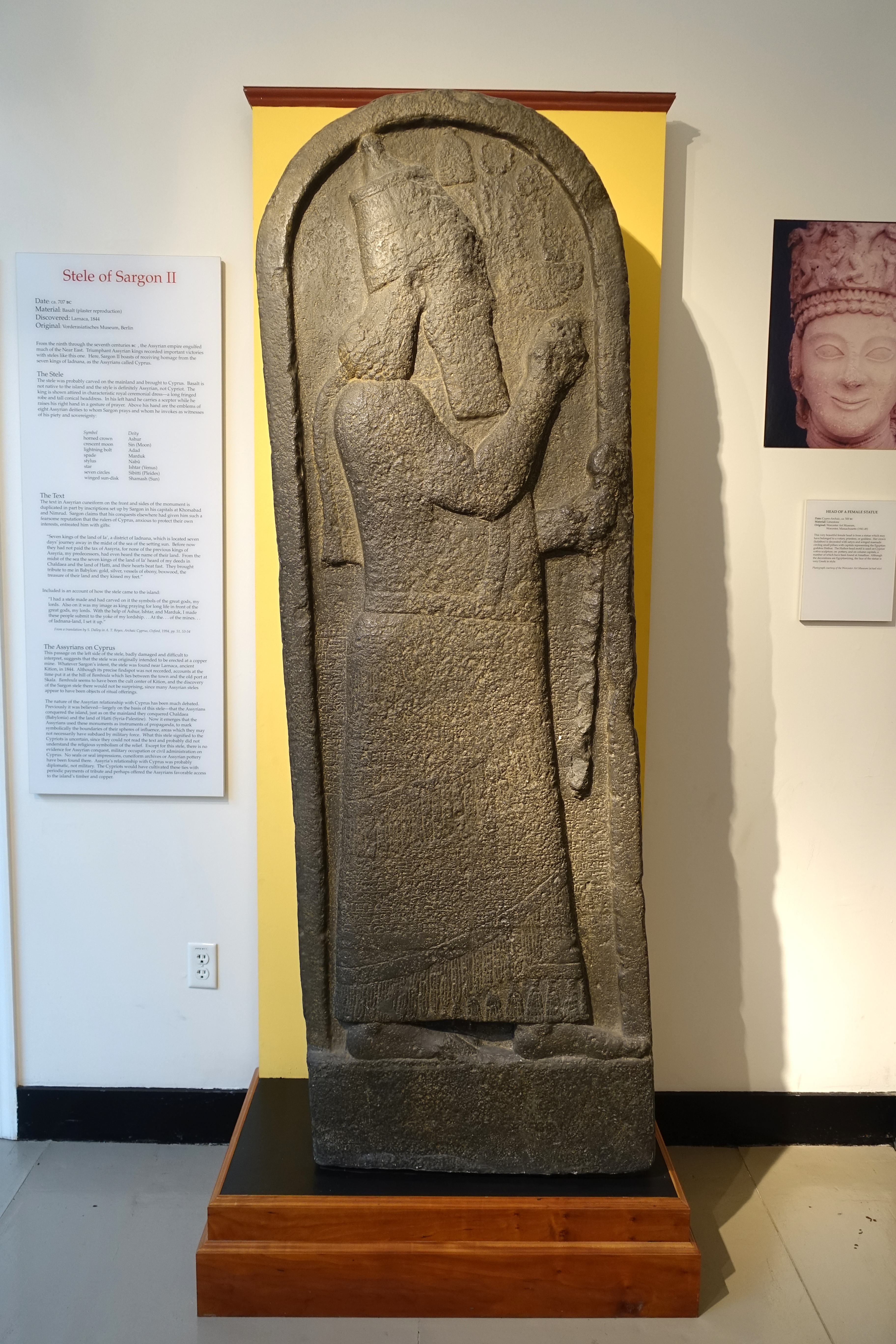 Exhibit in the Harvard Semitic Museum, Harvard University - Cambridge, Massachusetts, USA. This work is old enough so that it is in the public domain.